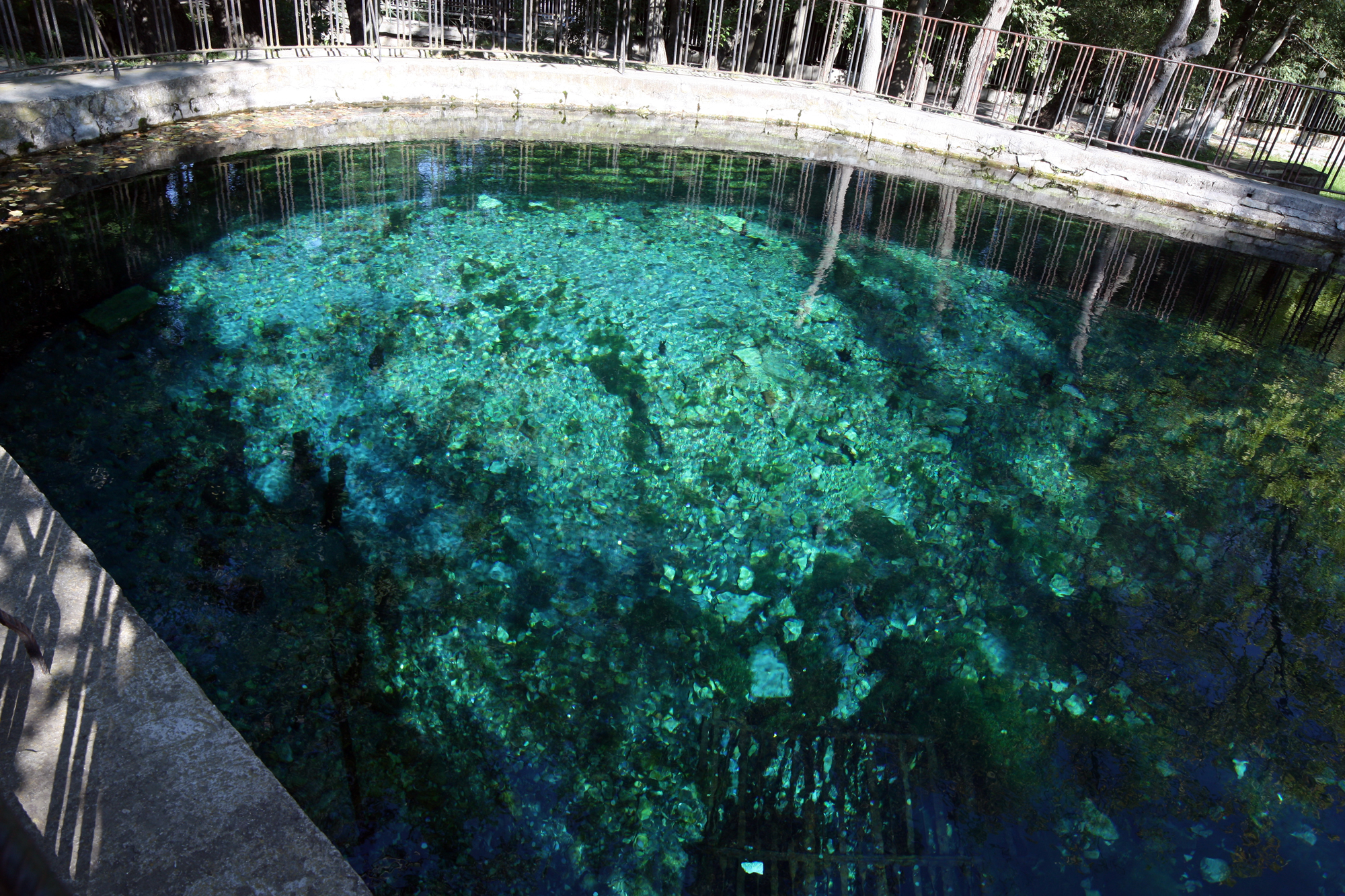 Tne Magic source of Devnya